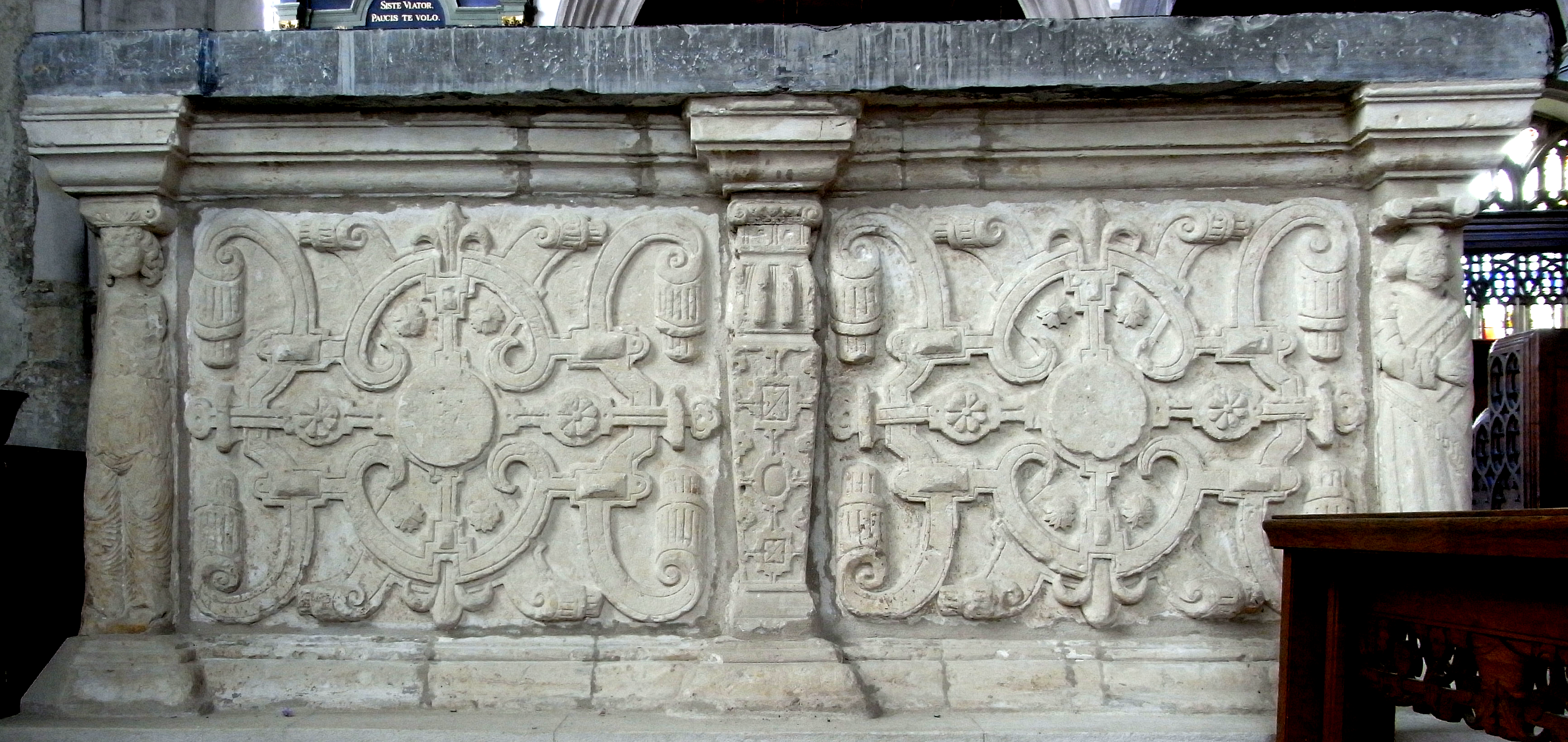 Chest tomb of George Slee (d.1 September 1613), merchant, St Peter's Church, Tiverton, Devon. George Slee of the Great House, Peter Street, Tiverton, was a wealthy merchant and founded Slee's Almshouses, next to his mansion house in Peter Street. The sides of the chest tomb are decorated with strapwork panels. Also displays Caryatids in the form of natives of the New World, or possibly Africa, with which regions he traded.